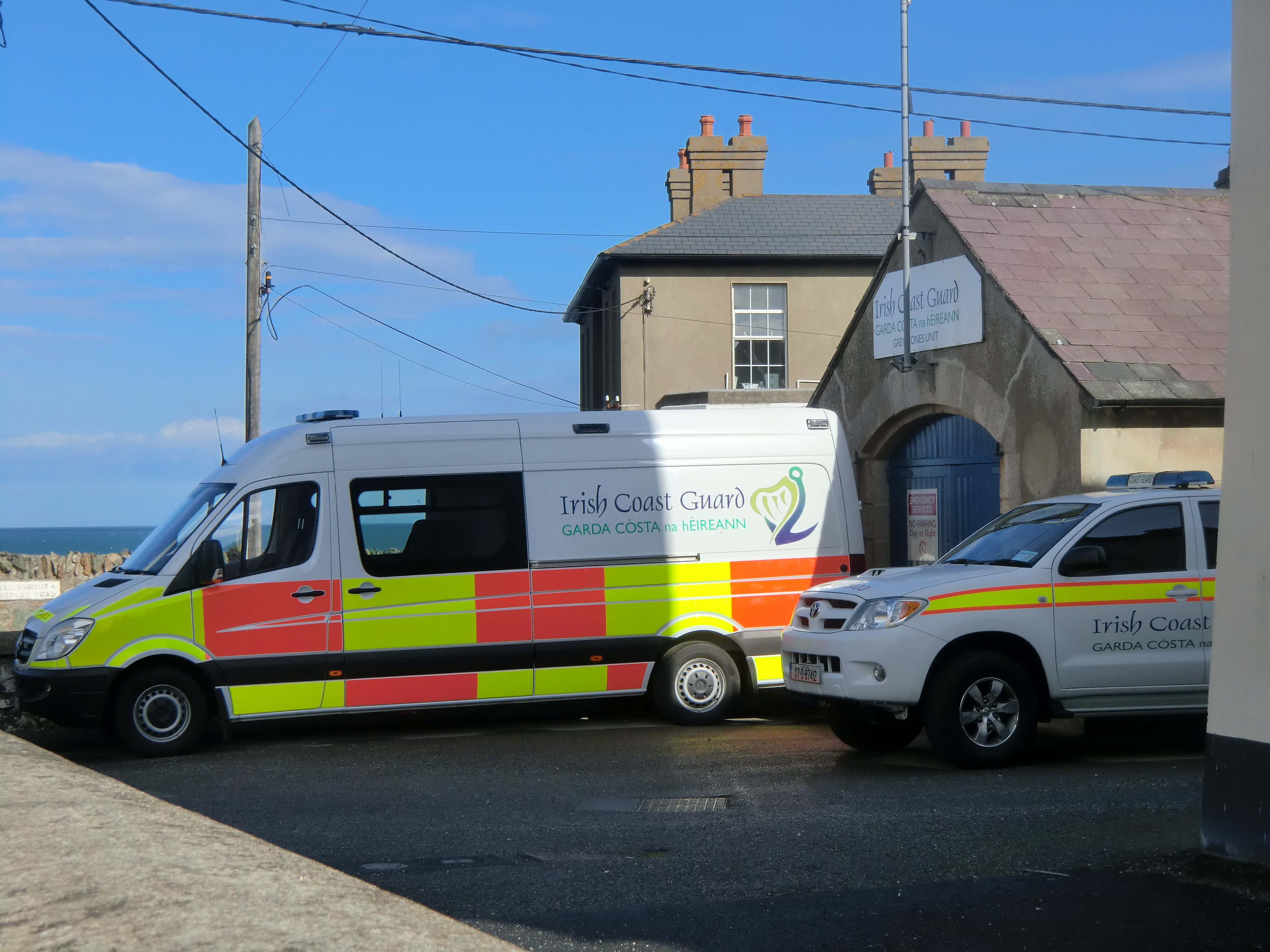 Irish Coast Guard, Greystones Unit, Greystones, Wicklow, Ireland